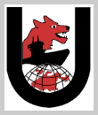 Emblem of 12th U-boat flotillia of Kriegsmarine.